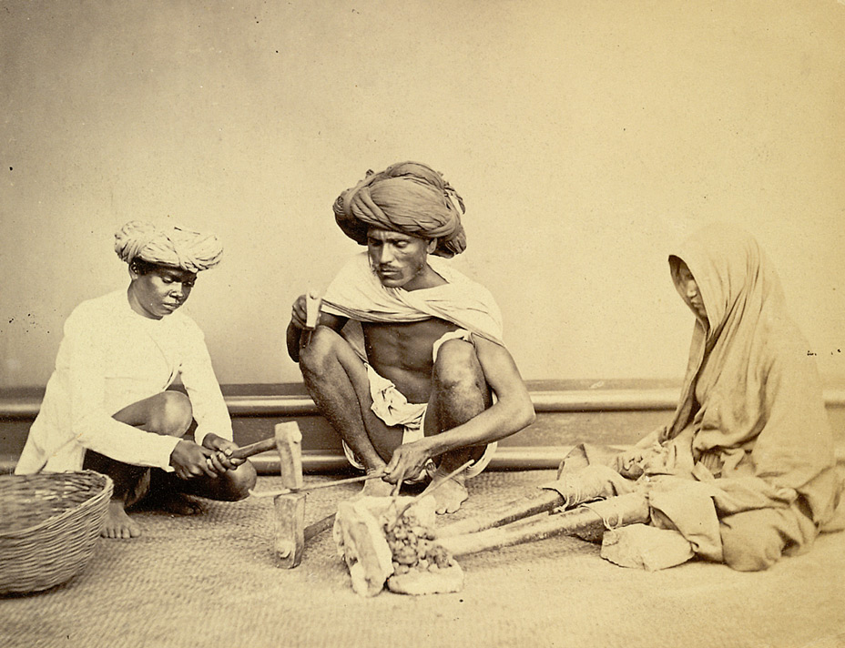 Studio portrait of blacksmiths at work in India.